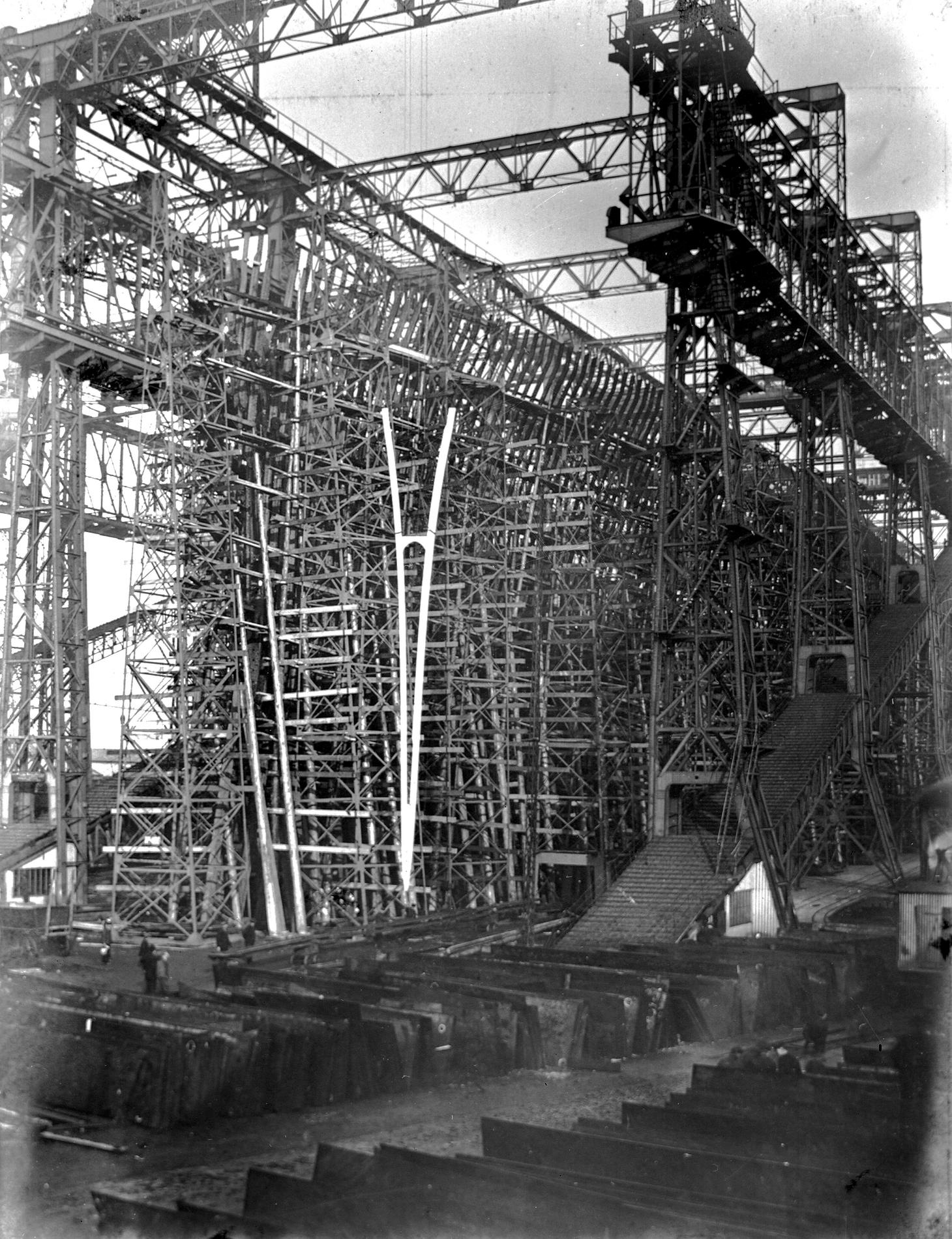 Photograph of the framing of the RMS Olympic under construction.